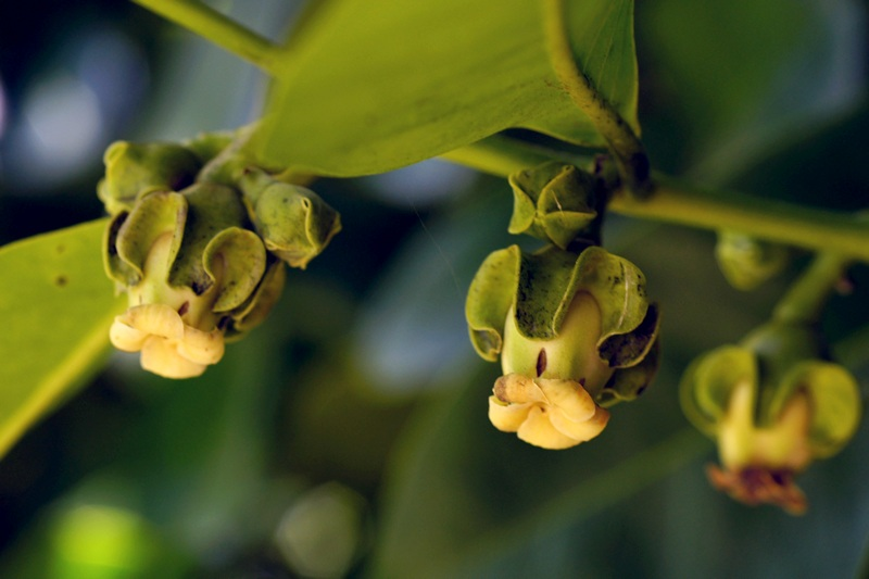 Fruit tree 'Maher Black Sapote' Close relative to Persimmon Diospyros virginiana, but it is native to the Amazon jungle in Brazil. Mt. Coot-tha Botanic garden, Australia. The best way to have the fruit is in a port wine. Check out this Australian website.